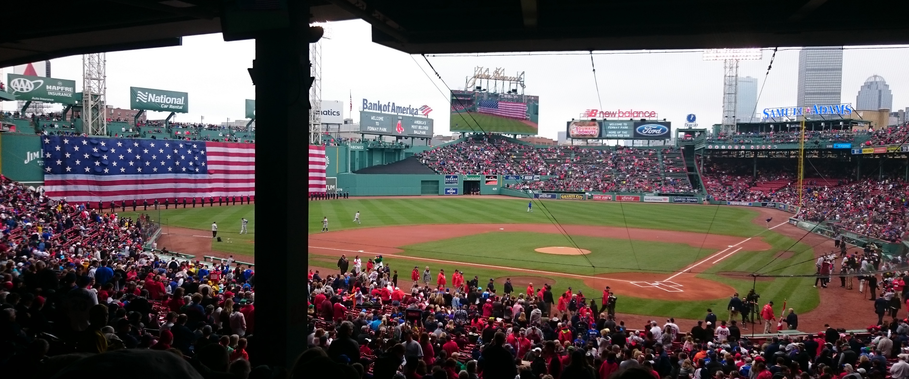 Flag draped over the Green Monster during the Memorial Day ceremony prior to a game between the Boston Red Sox and Toronto Blue Jays on May 28, 2018 at Fenway Park, Boston, Massachusetts.